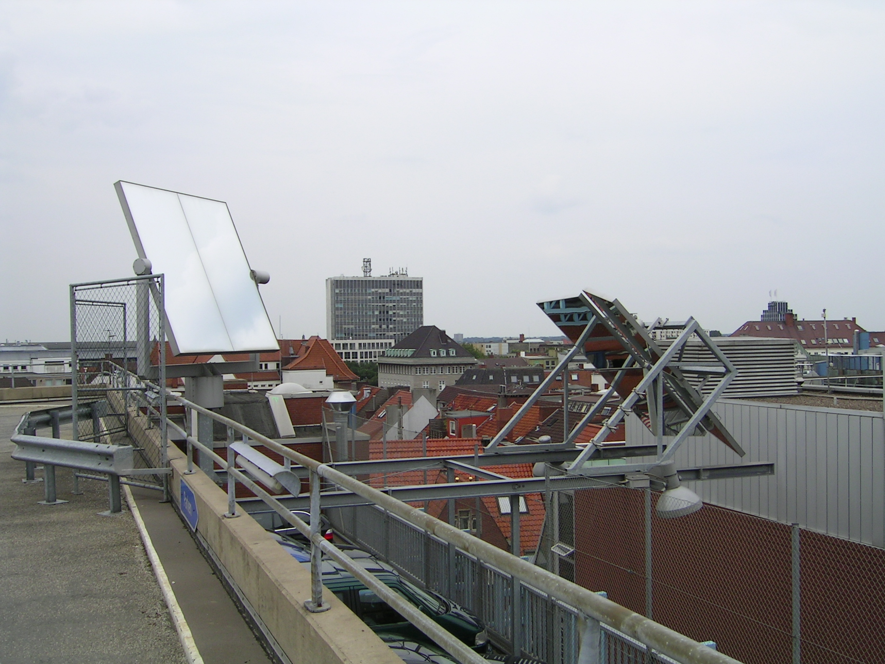 Lloyd Passage sun light system, Bremen — Lloyds Passage sun light system, Bremen 5 User:Tarawneh/rami